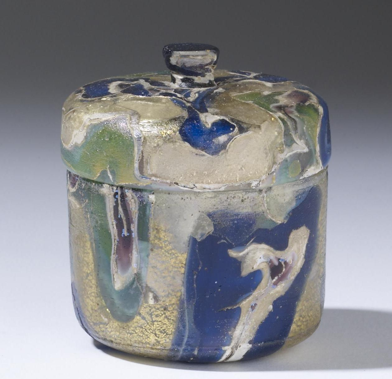 This pyxis, or cylindrical box, is an exquisite example of Roman luxury glassware, used to hold cosmetics or precious jewelry.